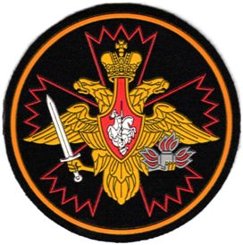 Sleeve Patch of the Main Intelligence Directorate